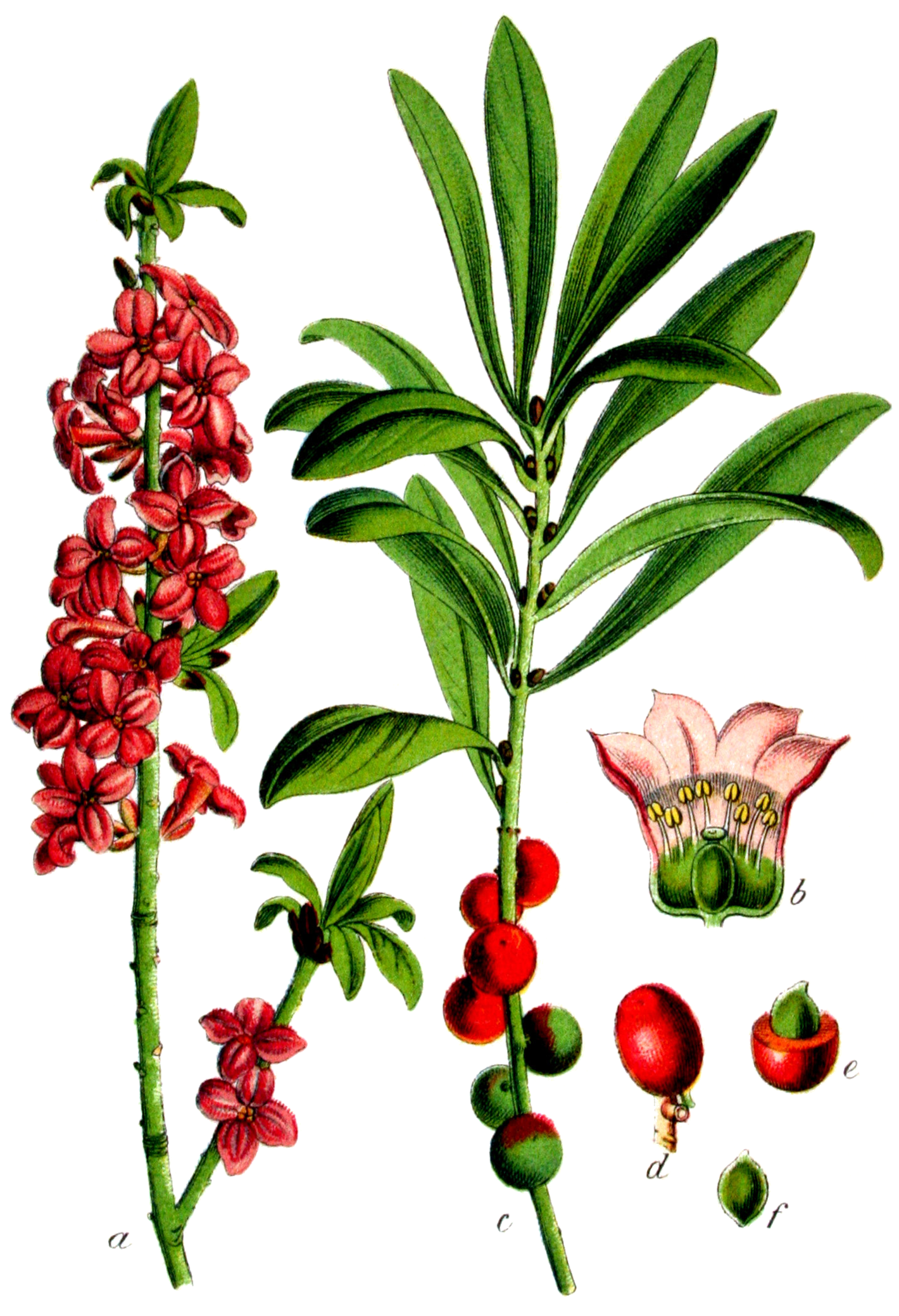 Fig. 40. Gemeiner Kellerhals, Daphne mezereum L.